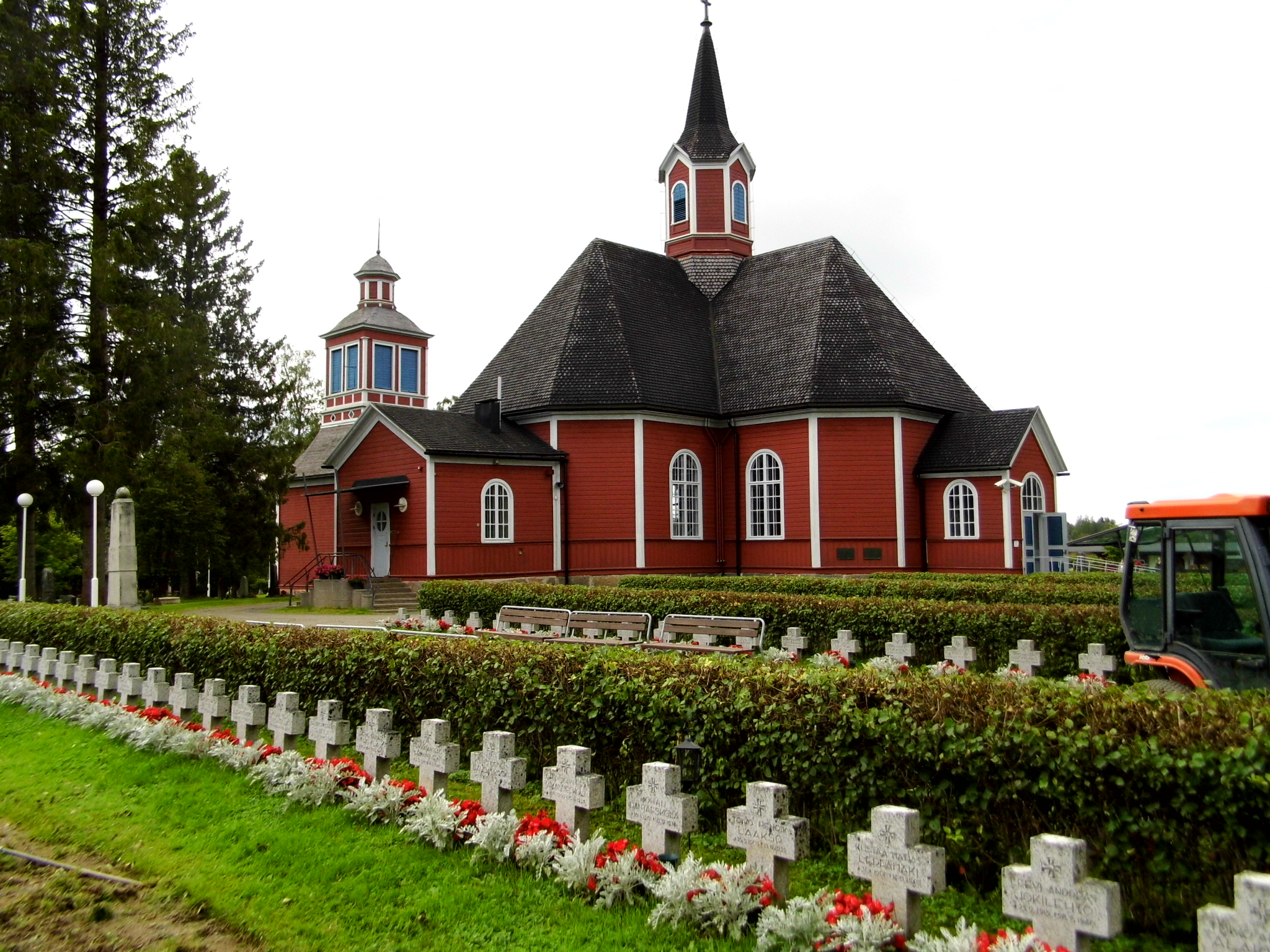 Oulainen Church and military cemetary in Oulainen, Finland